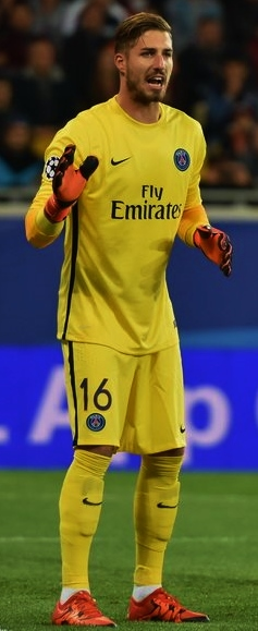 Kevin Trapp